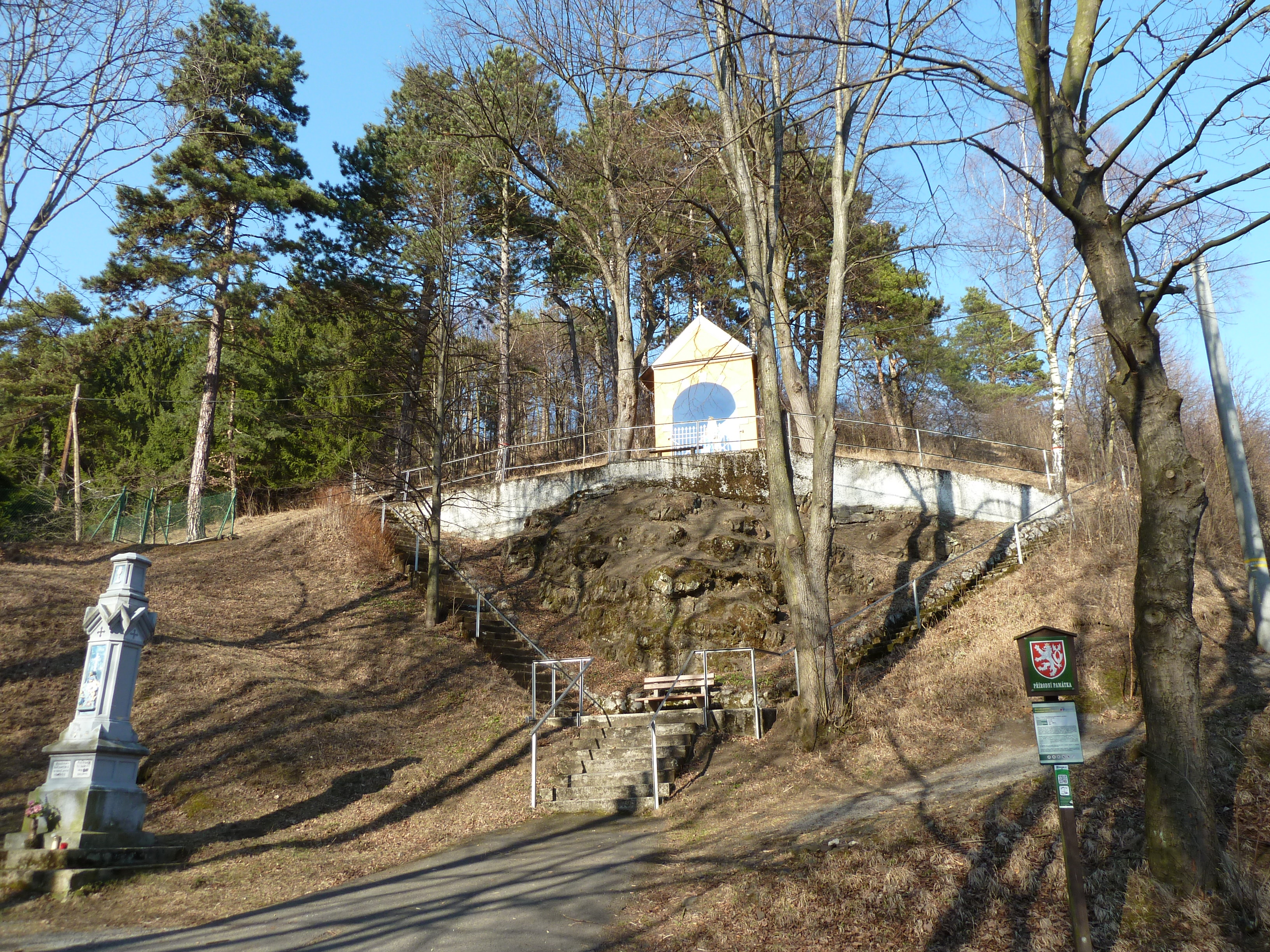 Natural monument "Polštářové lávy ve Straníku" (north-eastern Moravia, Czech Republic)